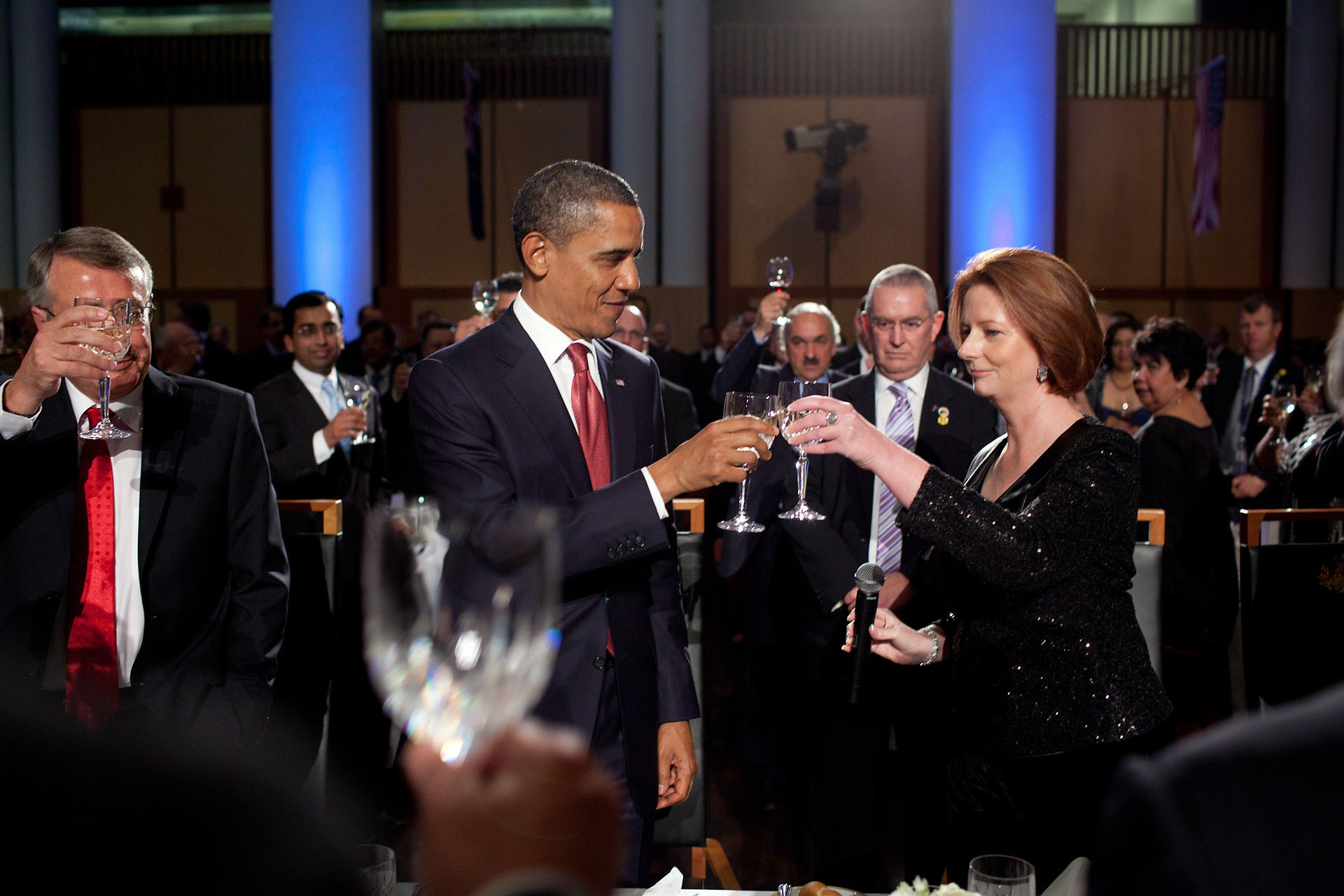 President Barack Obama and Prime Minister Julia Gillard toast during the Parliamentary Dinner at Parliament House in Canberra, Australia, Nov. 16, 2011.